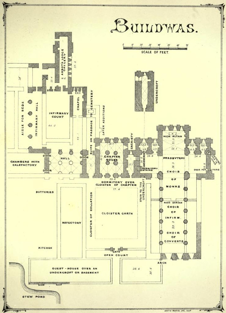 Plan of the remains of the Cistercian Abbey at Buildwas, Shropshire, England. The plan appeared in a book by a distinguished architectural historian and is stil useful as a rough guide to the abbey site.